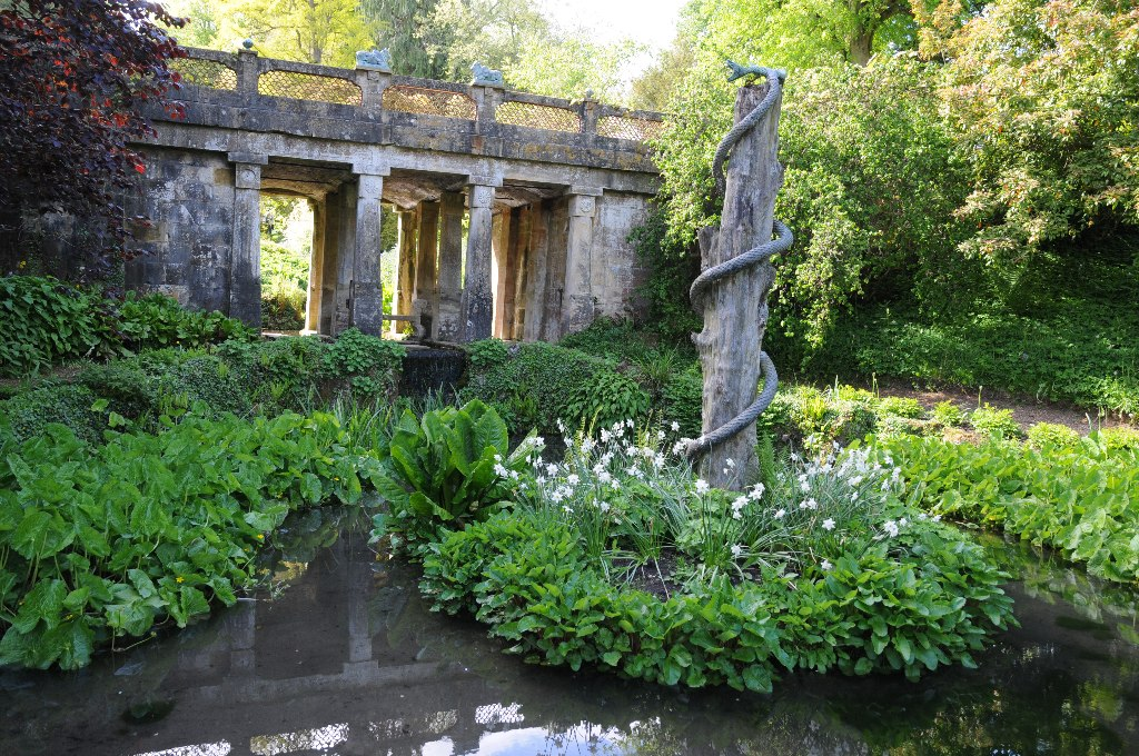 Bridge in the gardens of Sezincote House